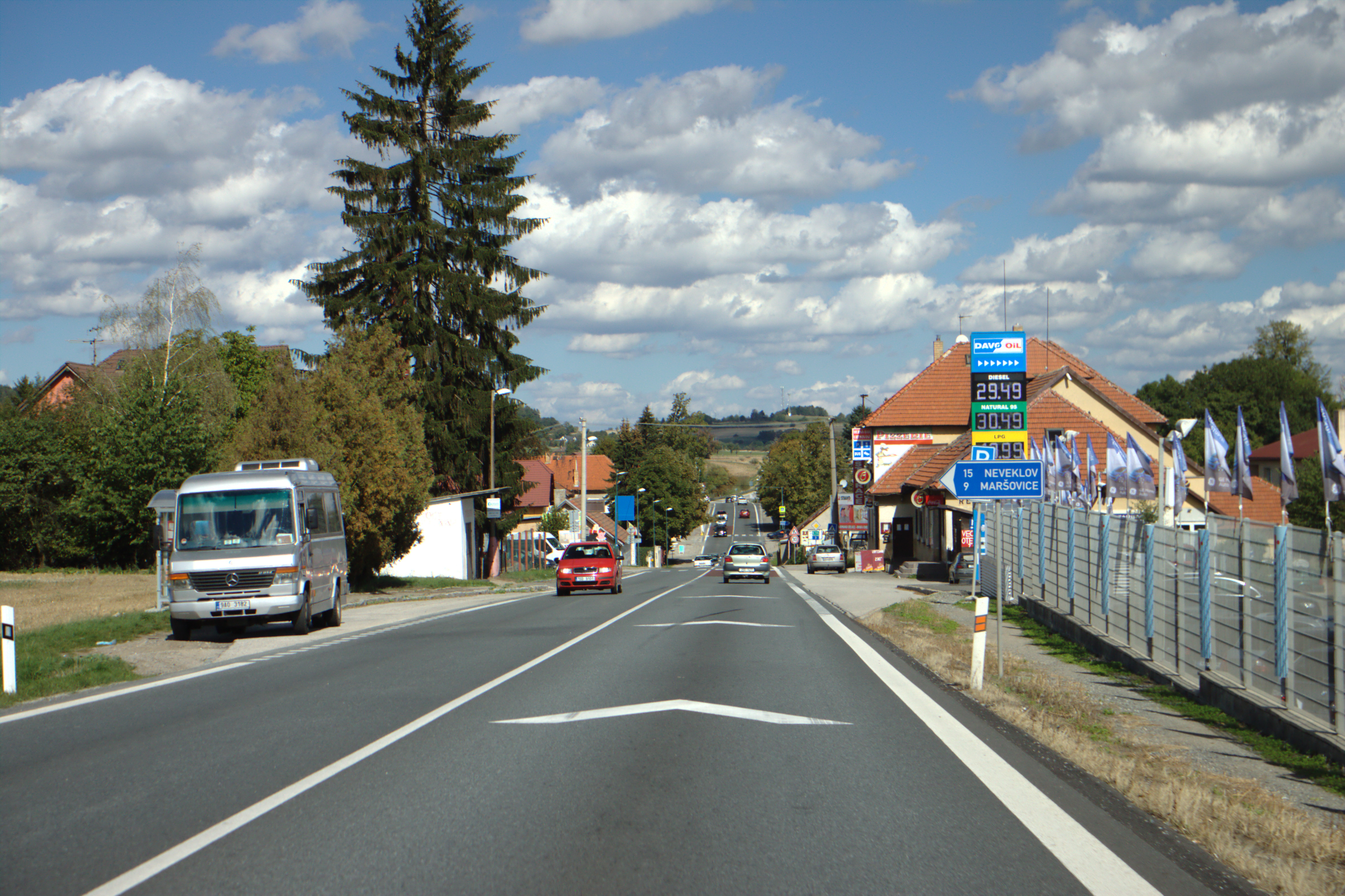 Southern border of the town of Olbramovice, Central Bohemian Region, CZ